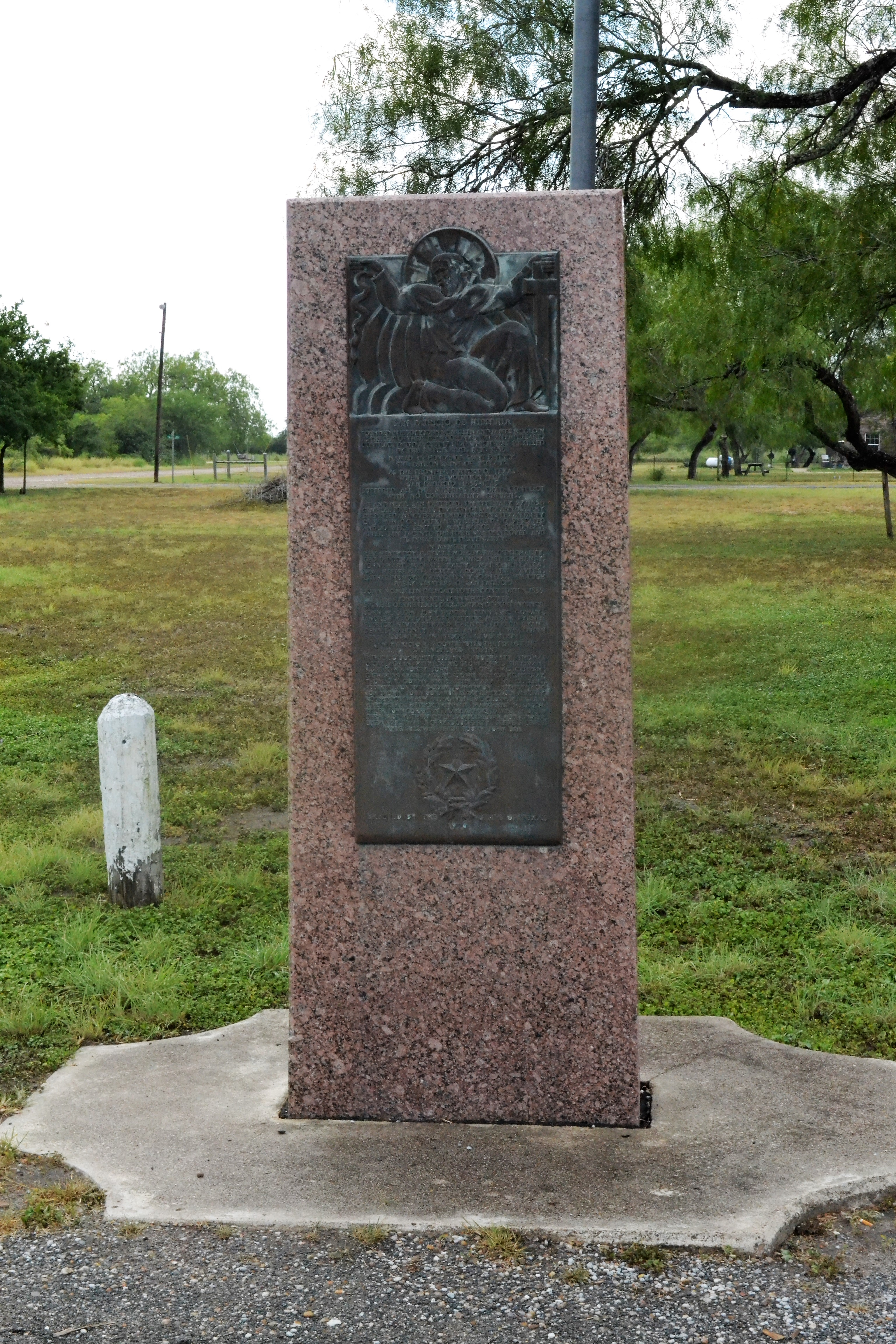 The San Patricio de Hibernia Monument in San Patricio, Texas. Created by sculptor Raoul Josset and architects Page and Southerland for the 1936 Texas Centennial, it was listed on the National Register of Historic Places on April 19, 2018.